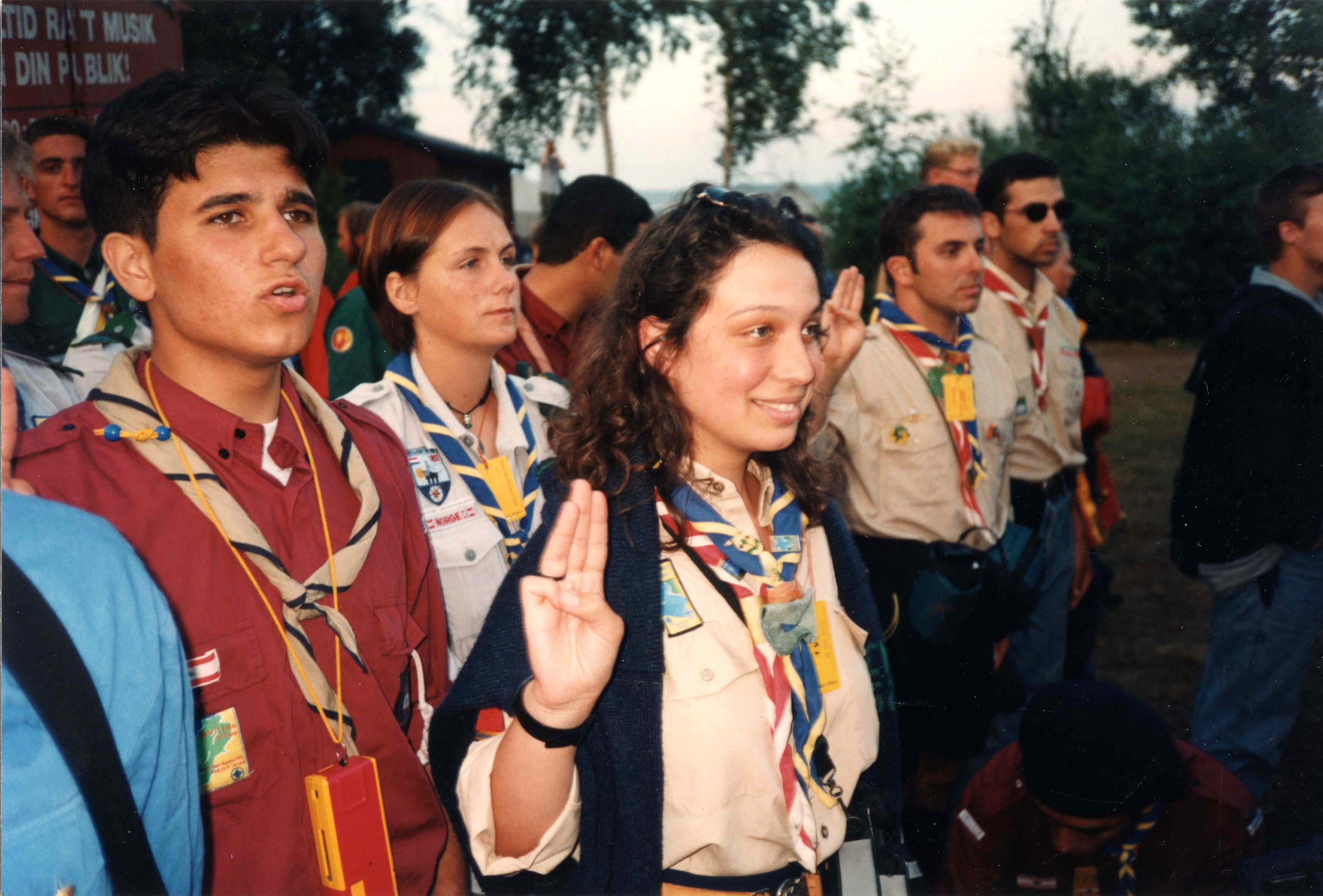 Scouts and Guides from different countries showing the three-finger-salute during World Scout Moot 1996